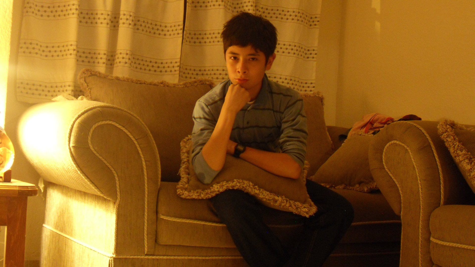 Mark L. Smith in 2009. Mark L. Smith is a virtuoso pianist since the 4 years old. Who has charted primarily in the contemporary Christian and occasionally in the mainstream charts. He was recognized by his 2nd grade teacher for his piano playing and was immediately given professional tuition. At five, he entered the Julián Carrillo School of Music Pre-College Division for classical piano training. In September 2004, is competing for the first time. Teachers were amazed by the skill and dexterity of this student. Never before seen in other students. He was interested in various instruments.